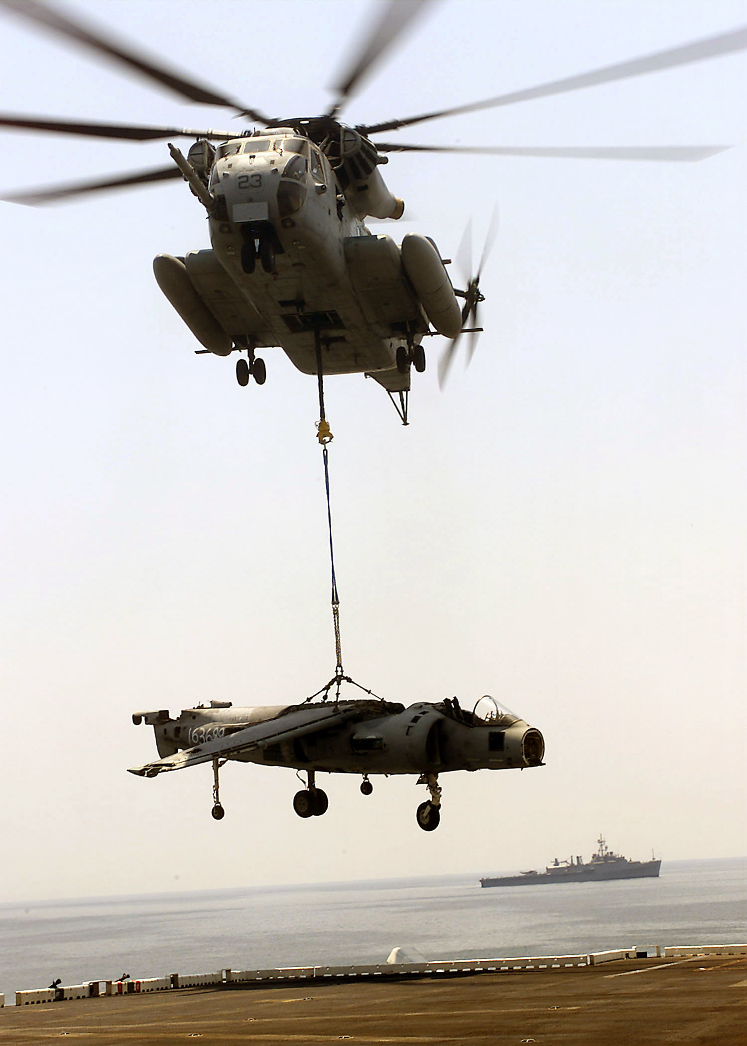 030624-N-5027S-001 The Atlantic Ocean (Jun. 24, 2003) -- A CH-53 Sea Stallion drops a “retired” AV-8 Harrier on the flight deck aboard USS Saipan (LHA 2). The AV-8 will be used as a static display for Saipan's Tiger Cruise en route to its home port in Norfolk, Va. The amphibious assault ship is returning from deployment in support of Operation Iraqi Freedom. U.S. Navy photo by Photographer's Mate 2nd Class Robert M Schalk. (RELEASED)